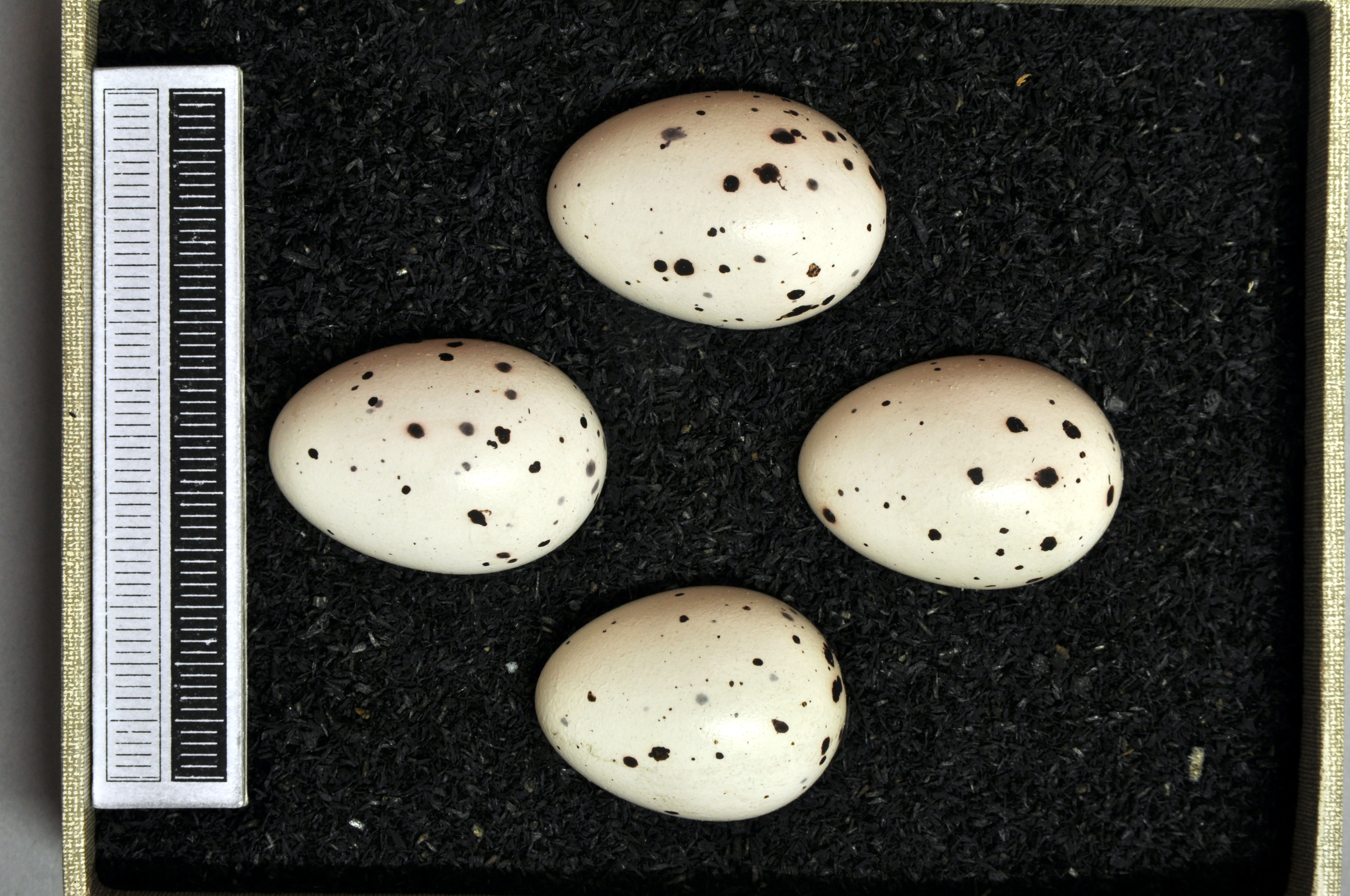 Eurasian golden oriole Oriolus oriolus , egg, Coll. Museum Wiesbaden